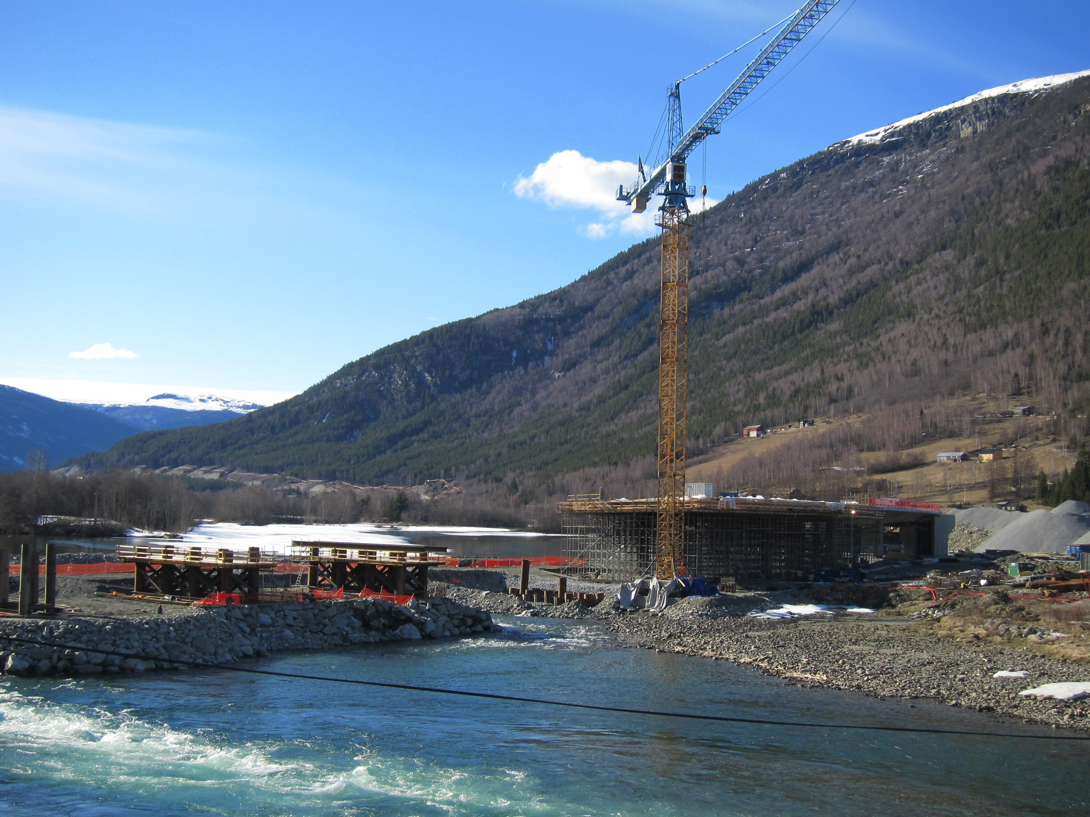 Lågen bru (Lågen bridge) at Kvam, new road E6